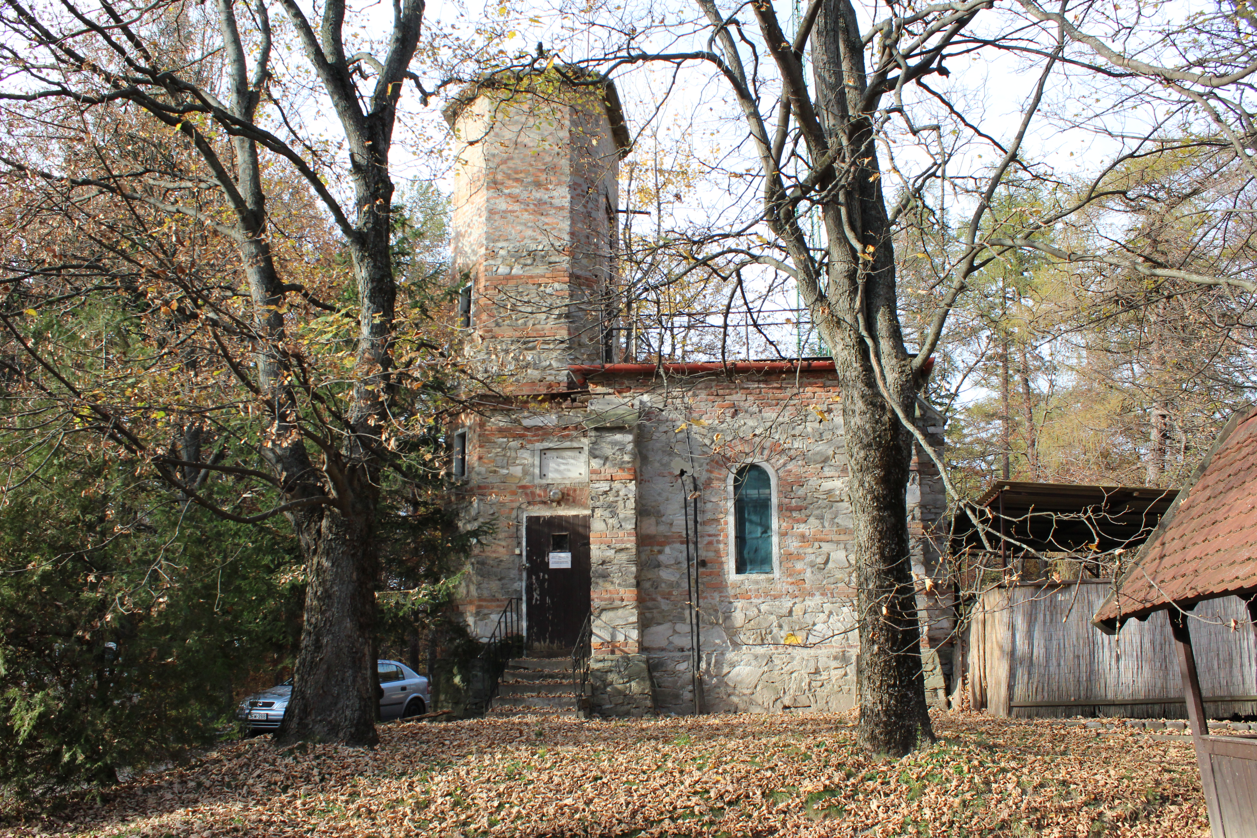 The Muck Lookout Tower (Sopron, Hungary), built in 1906, architect Schiller Ferenc.